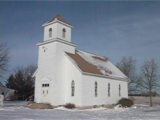 winter outside photo